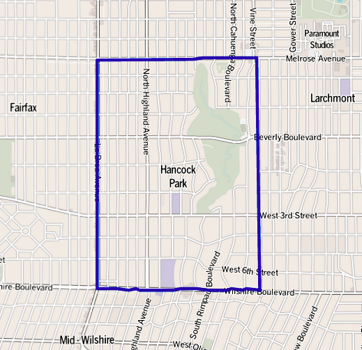 Map of Hancock Park, California Other information Boundary map as drawn by the Los Angeles Times on a CC-by-SA background. Note at bottom right of map on the L.A. Times website noted above says "CC-by-SA" (which gives permission to use the map). There is a link there to which explains the meaning thereof. The base map is credited to The Times spells all this out at